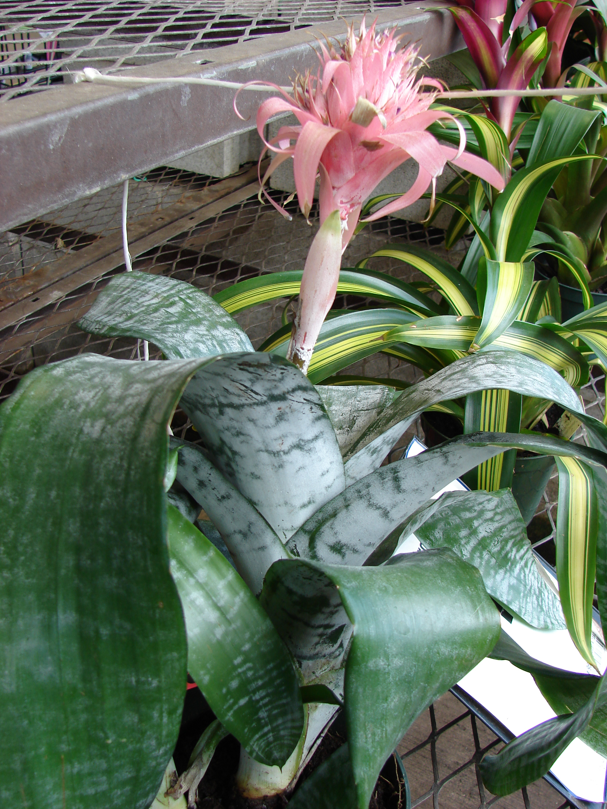 Aechmea fasciata (flowering habit). Location: Maui, Lowes Garden Center Kahului